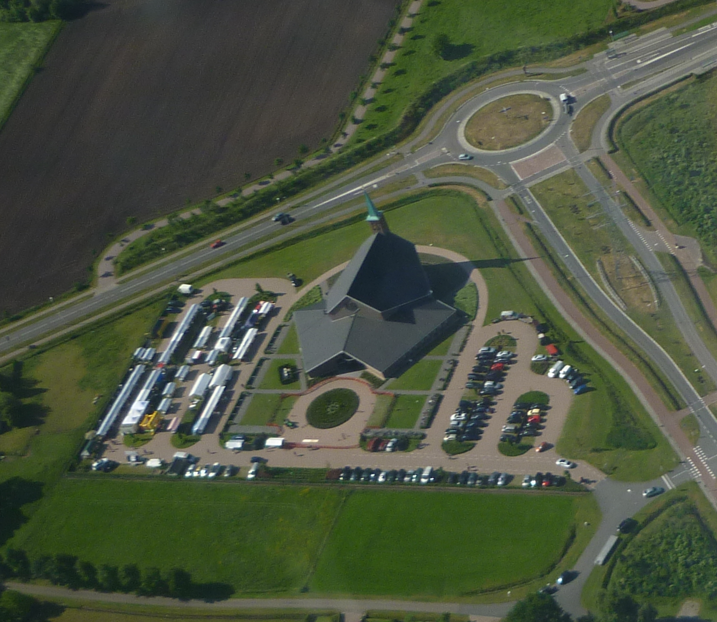 Hersteld Hervormde Kerk in Putten as seen from a plane, while they are having their yearly fundraising market at the parking.